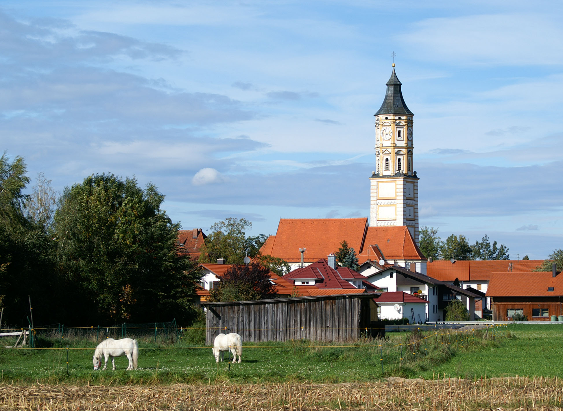 Schlingen von Süden, Bad Wörishofen